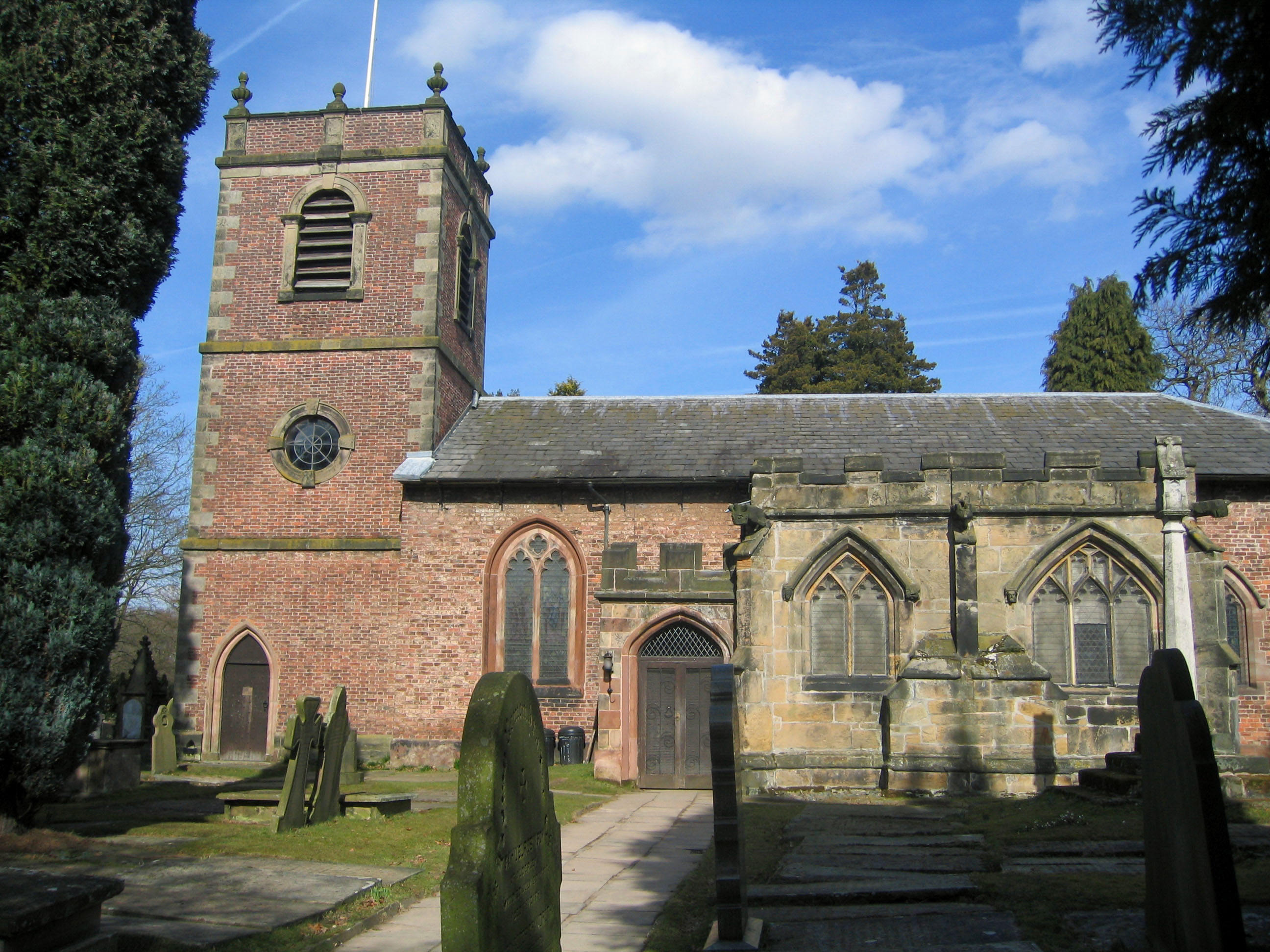 Photograph of St Lawrence's Church, Over Peover, Cheshire, England, from the south